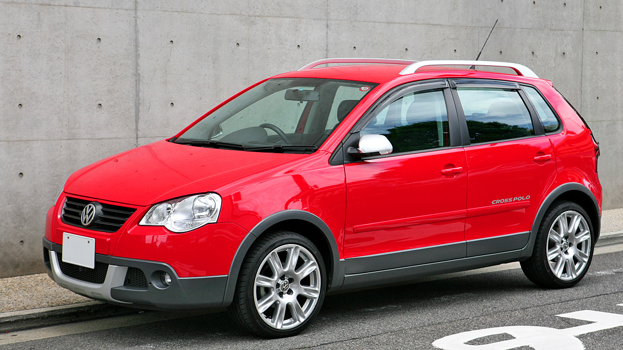 '08 Volkswagen Cross Polo